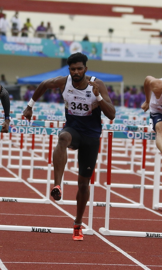 Athletes during 22nd Asian Athletics Championships in Bhubaneswar.